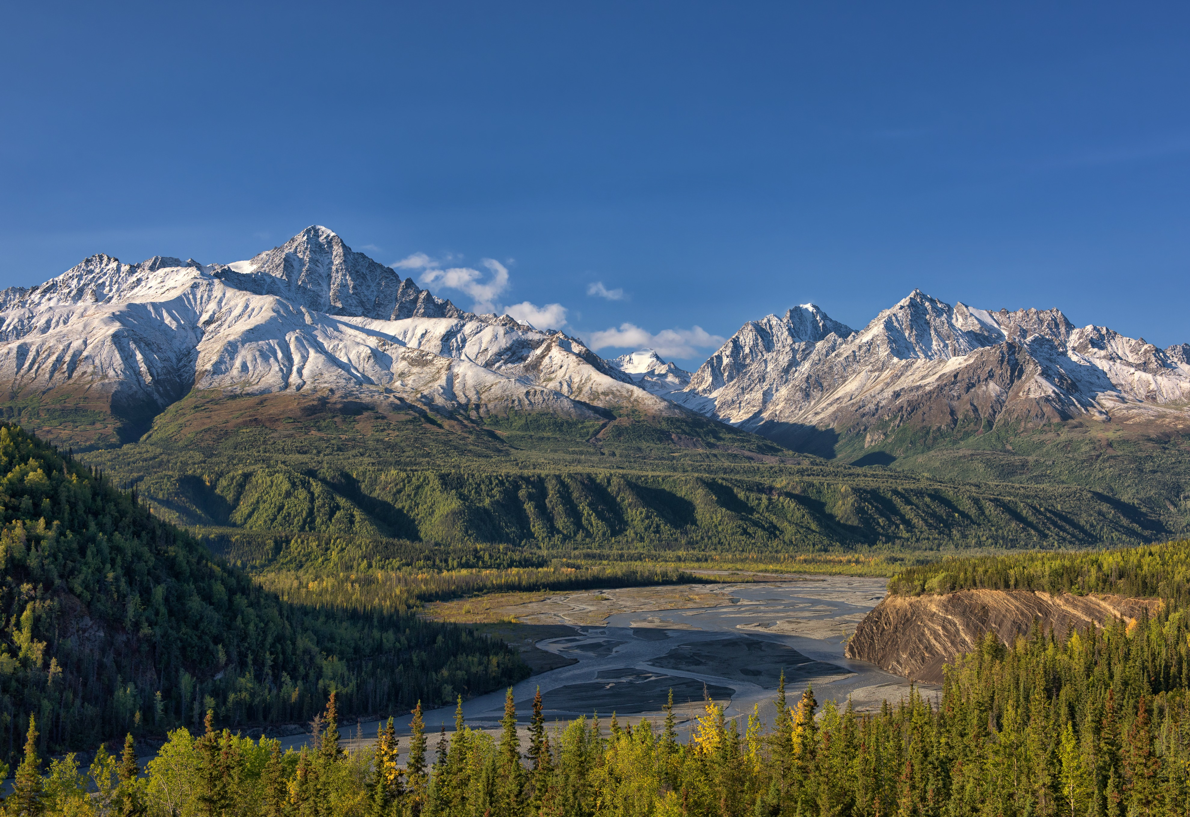 Amulet Peak is one of the primary peaks of Chugach mountain range.